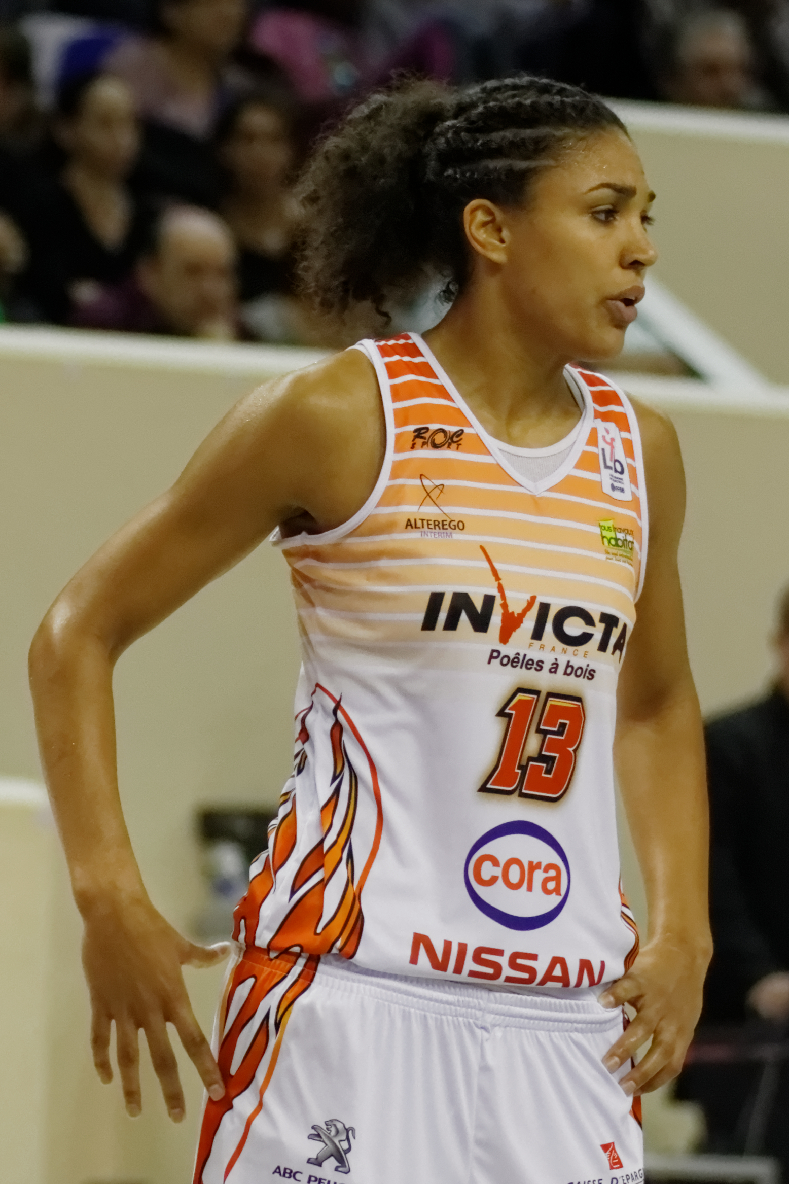 Open LFB, Charleville-Mézières - Tarbes, October 5th, 2013.